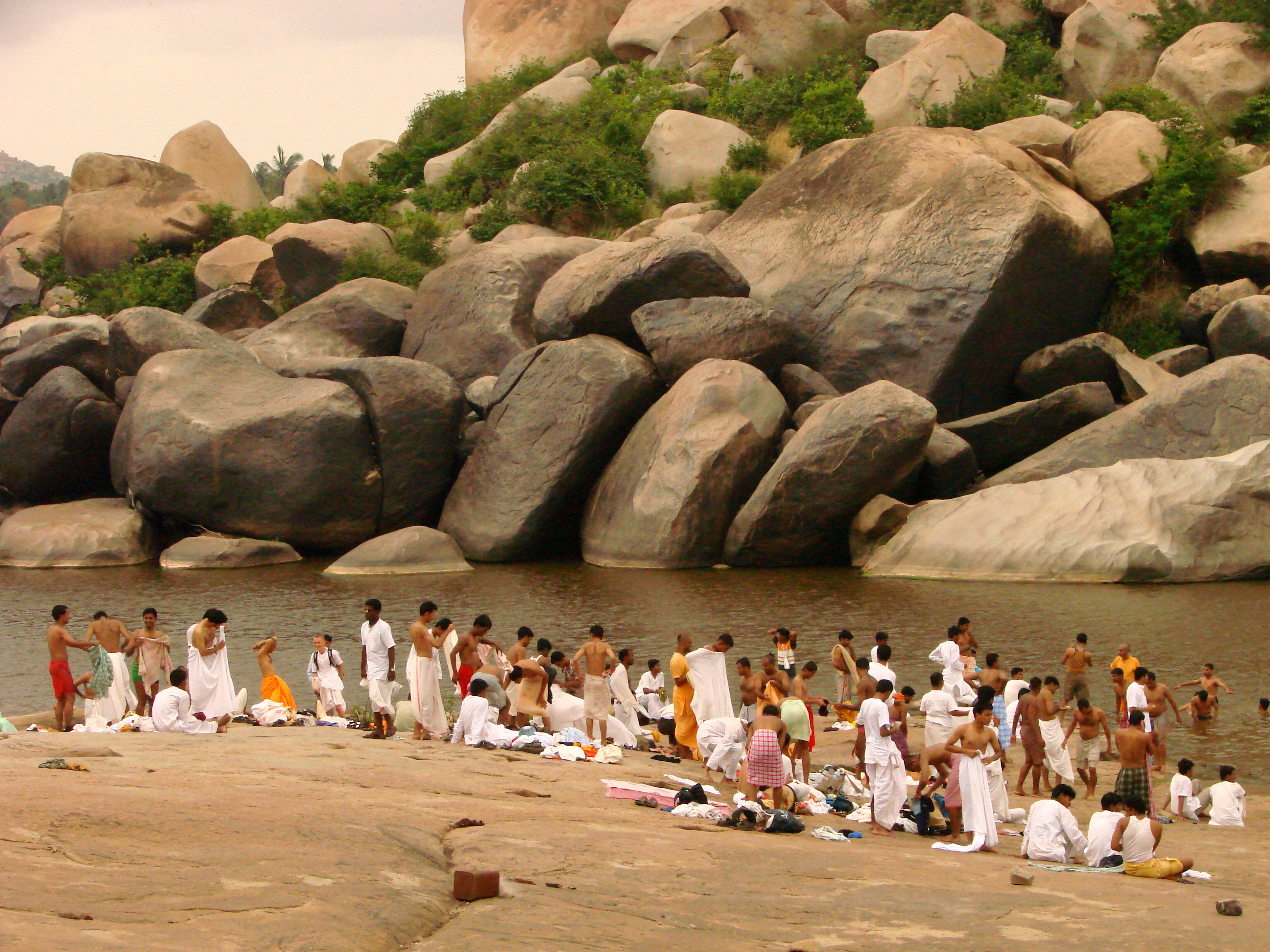 Hindu pilgrims bathe in the Tungabhadra River, near Hampi village, India. July 2008.